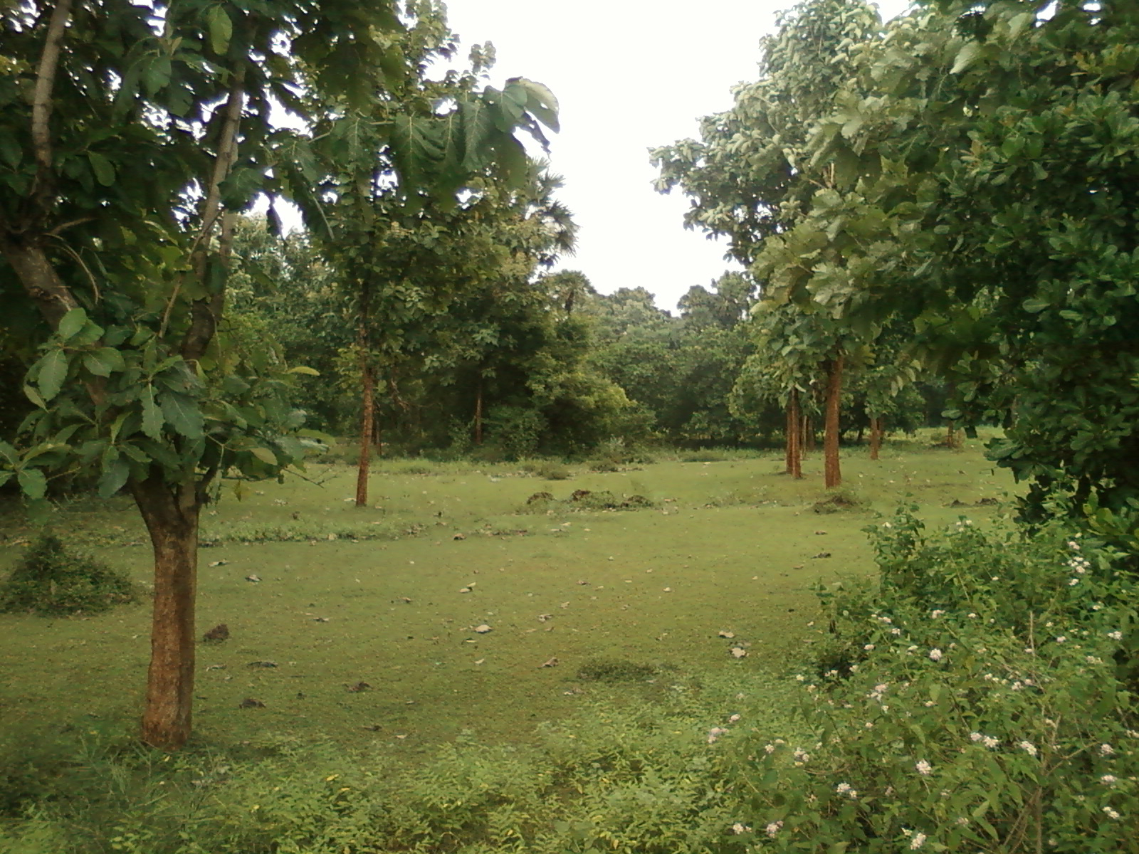 Salur, Vizianagaram district